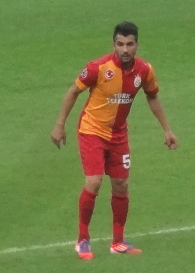 Engin @ Champions League match.